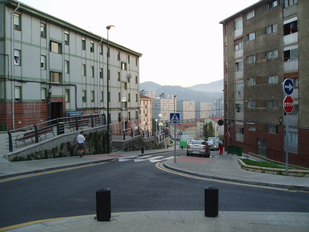 Otxarkoaga district (Bilbao).